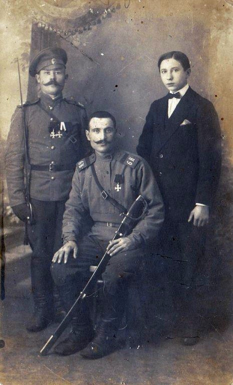 Vlasenko Ilia (1886-1935). Wachtmeister separate corps of border guards. Kybarty-city. (not earlier 1917).A native of the village. Kozynka (Hayvoronschyna)